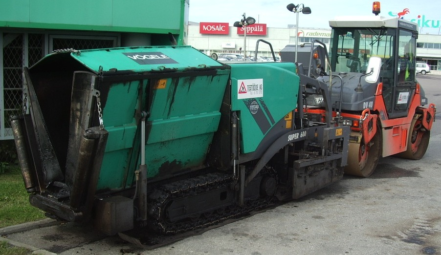 Road building machine